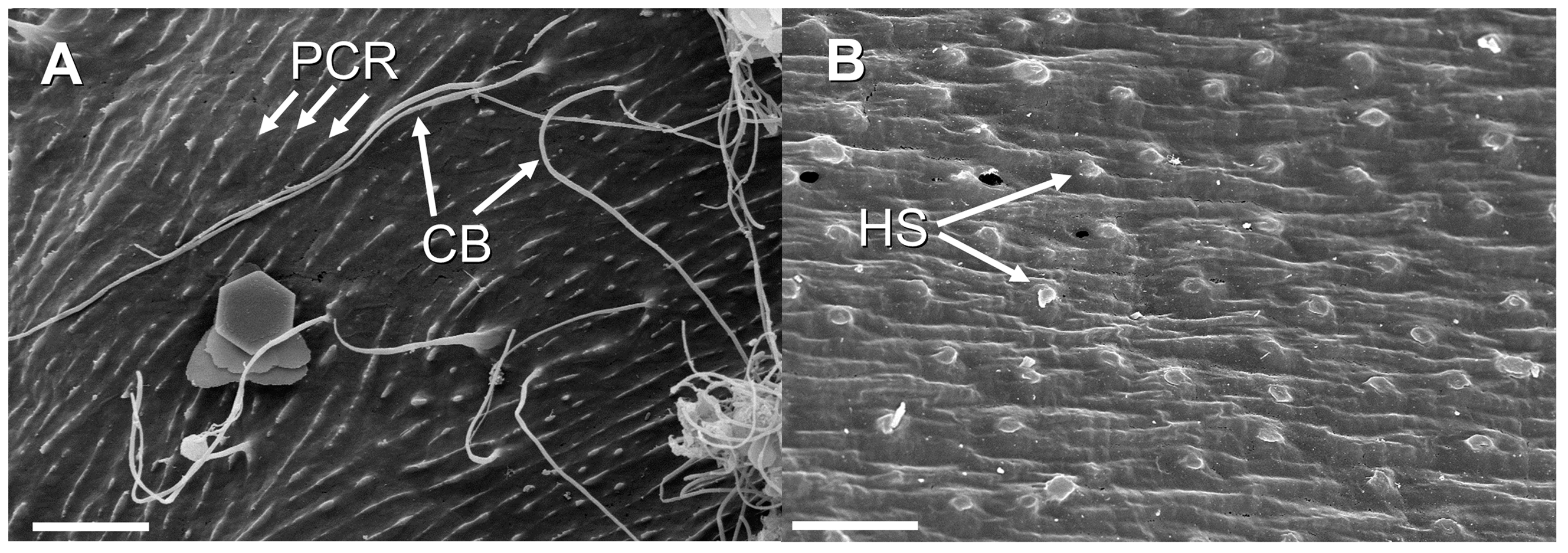 (A) longitudinal ridges, from which long cuticular bristles emerge on the inside of the tail lobes, and (B) hemispherical structures on the mid-body surface. Abbreviations: PCR, parallel cuticular ridges; CB, cuticular bristles; HS, hemispherical structures. Scale bars = 10 µm.